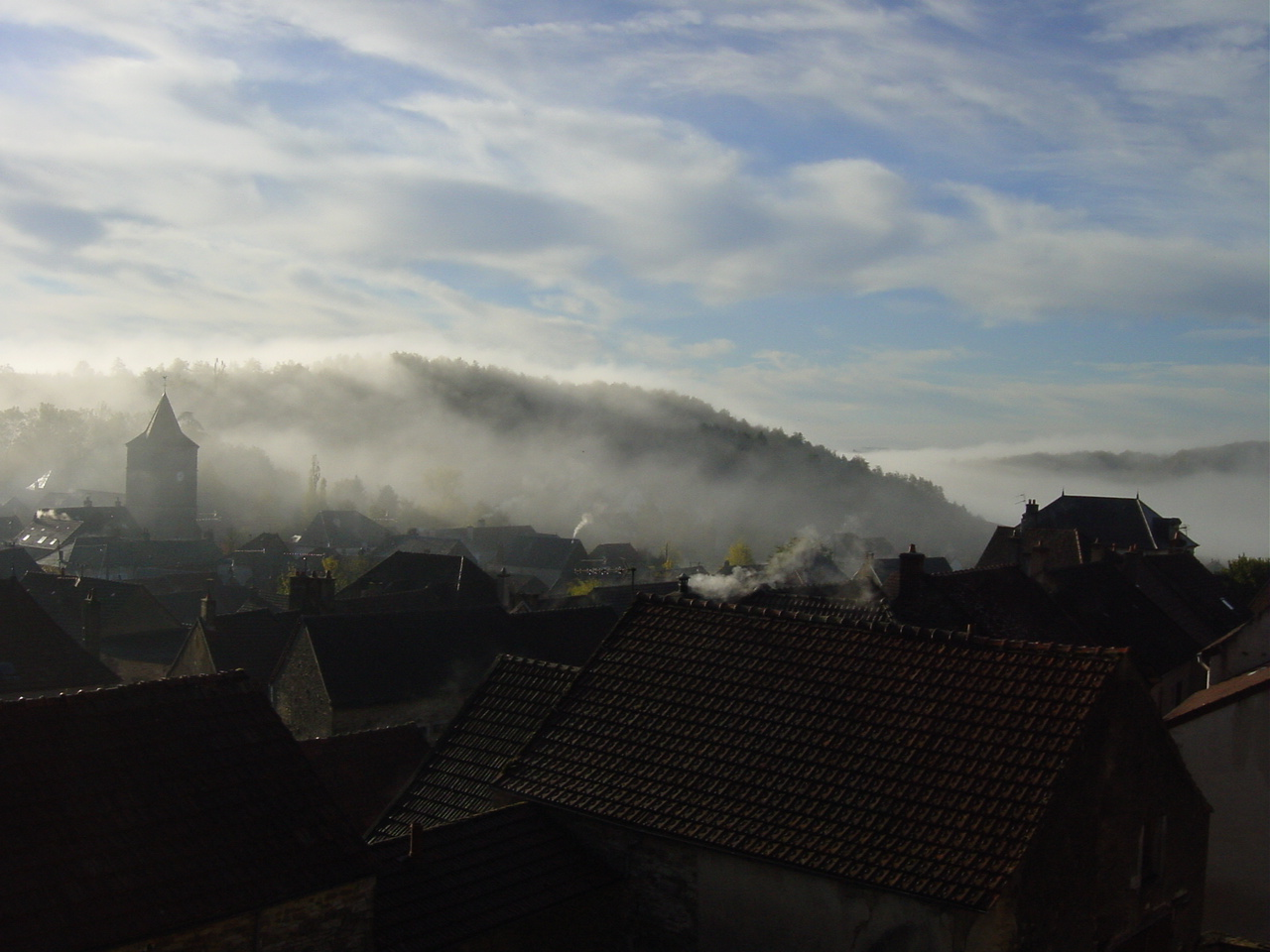 View over Meloisey